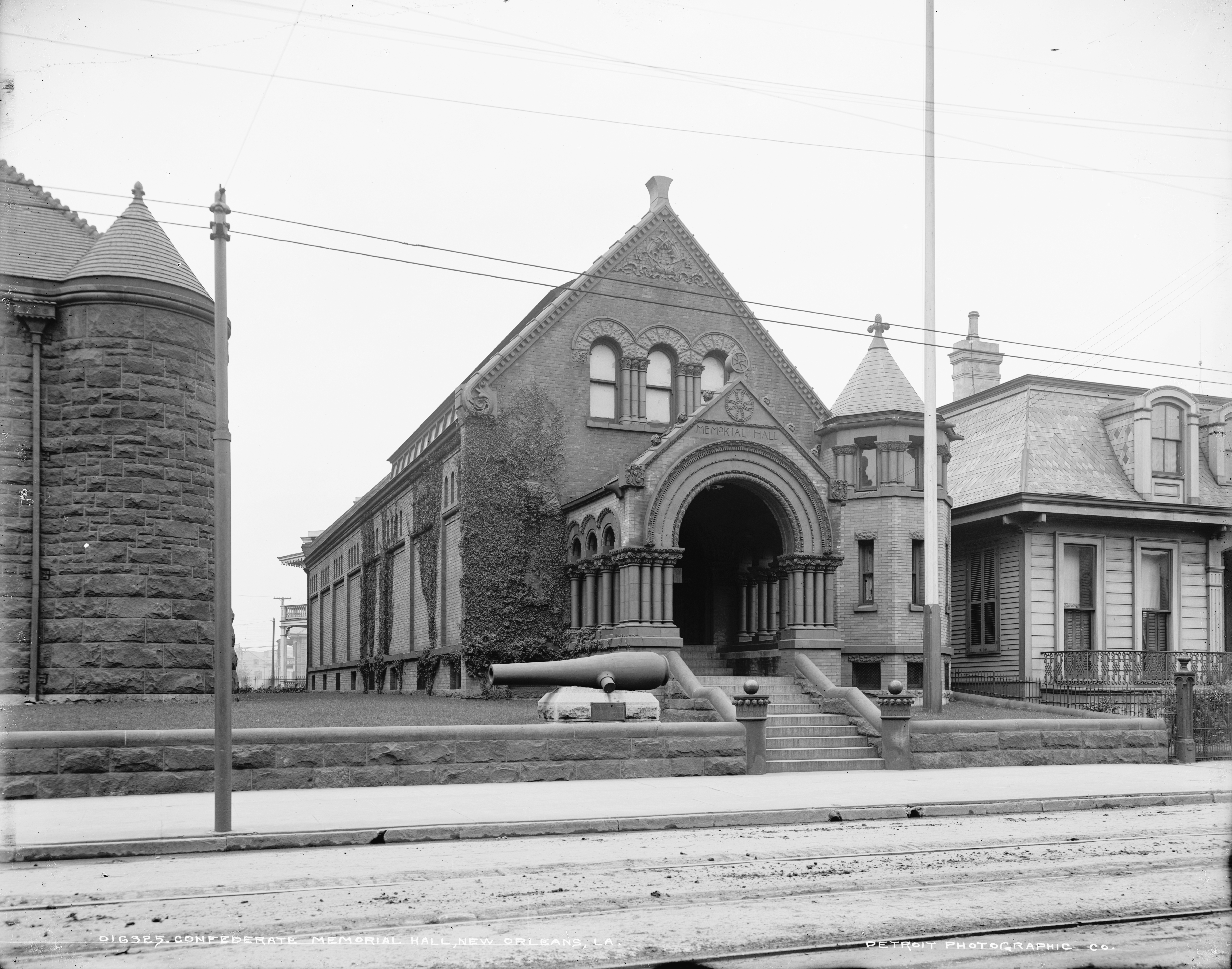 Confederate Memorial Hall, Camp Street, New Orleans, La., early 1900s